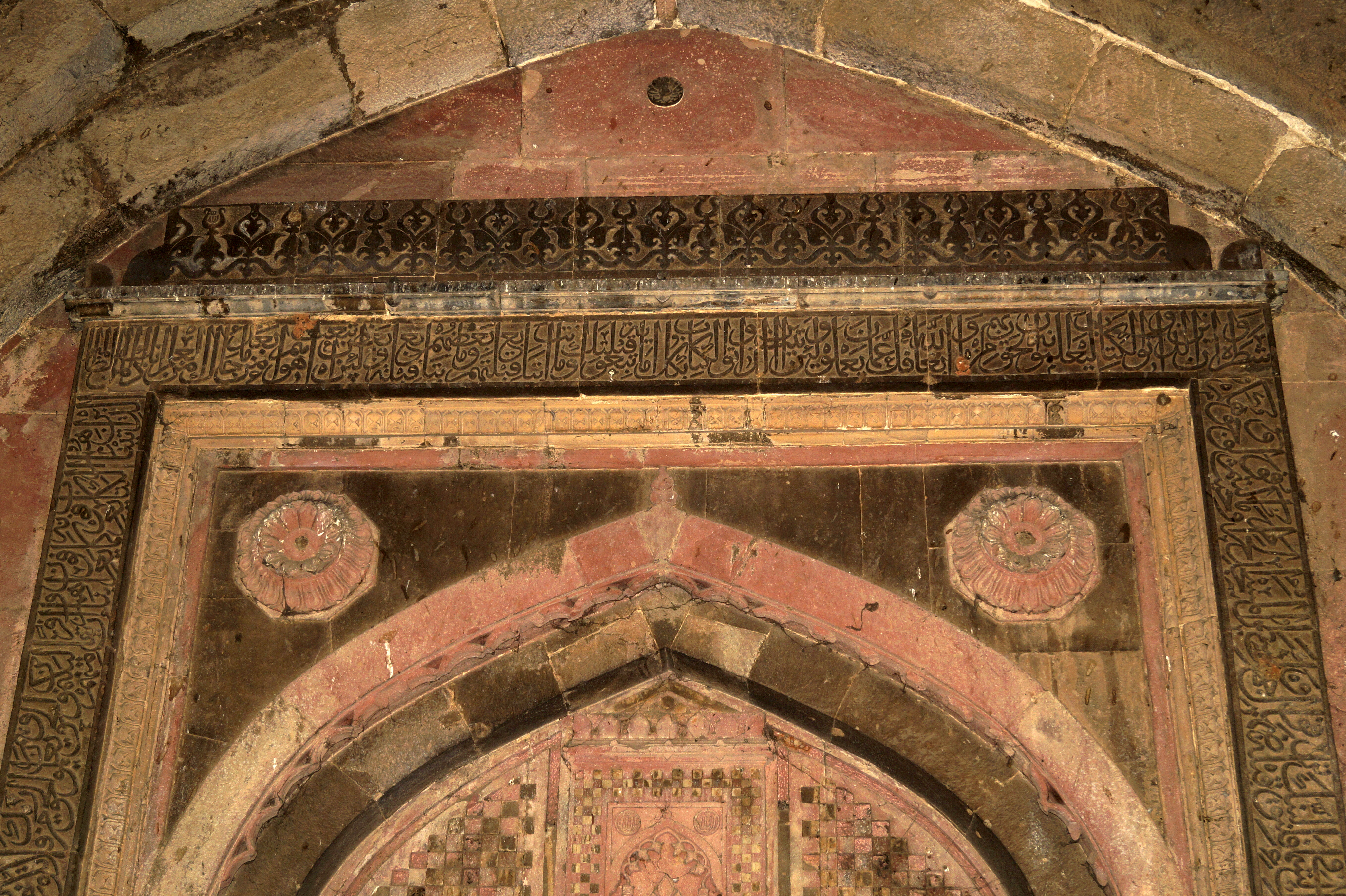 Inscription on entry doors ofJamali Kamali Mosque and Tomb, New Delhi, India